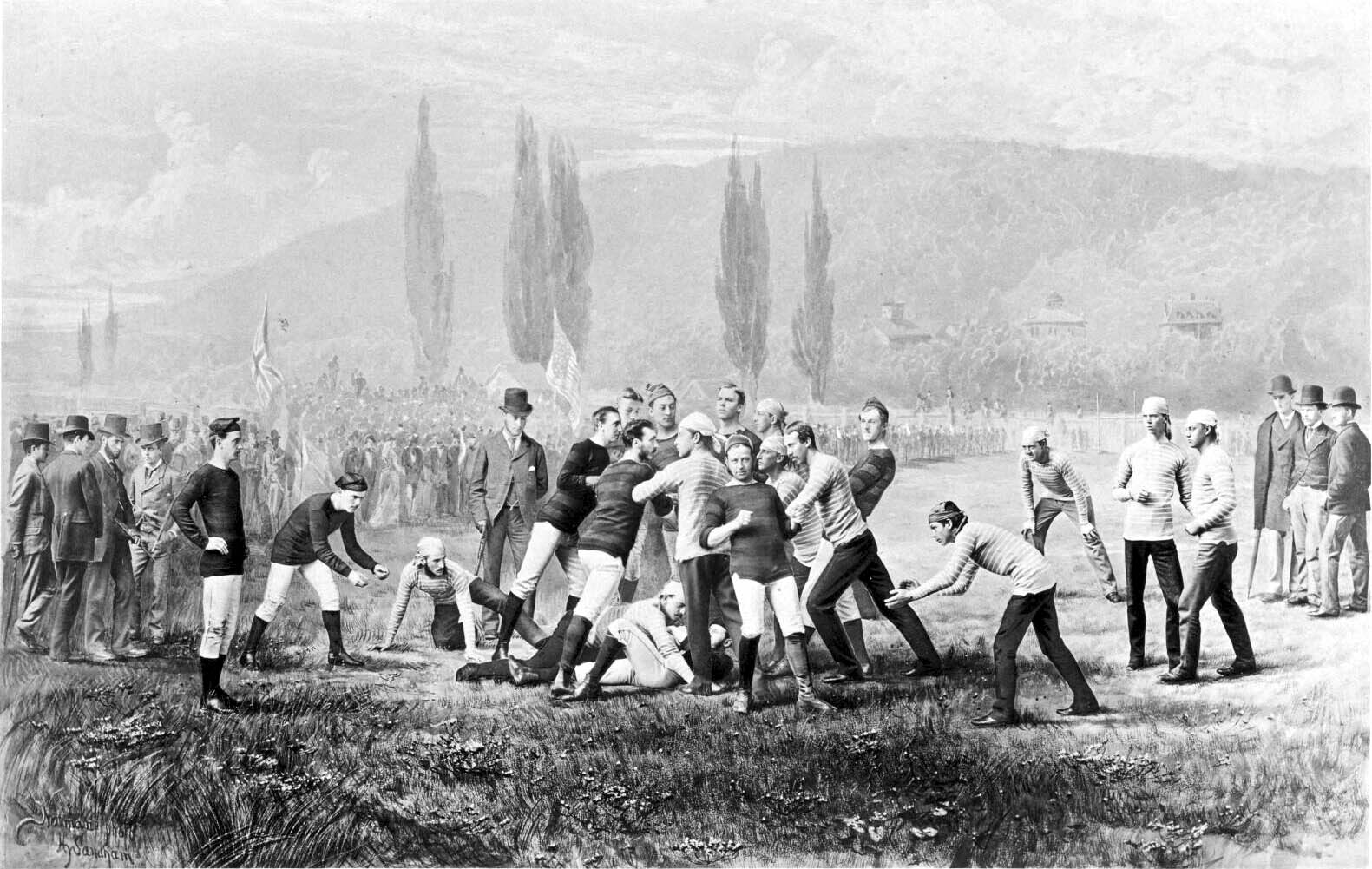 Harvard Crimson v McGill Redmen, American football game.